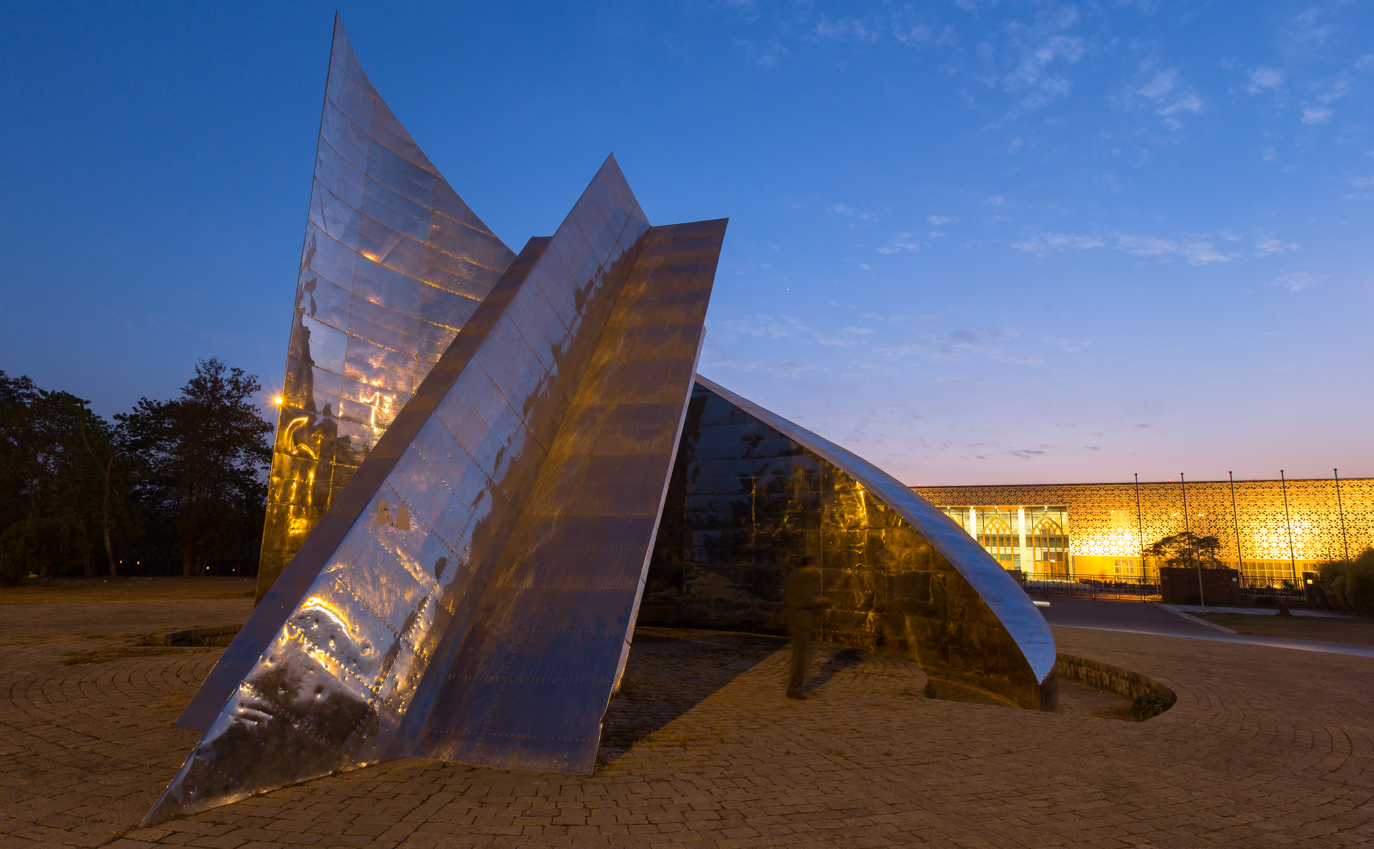 Crescent and Star monument is a structure made from metal sheets, near the Shakar Parian Hills, Islamabad. This is a photo of a monument in Pakistan identified as the ICT-46